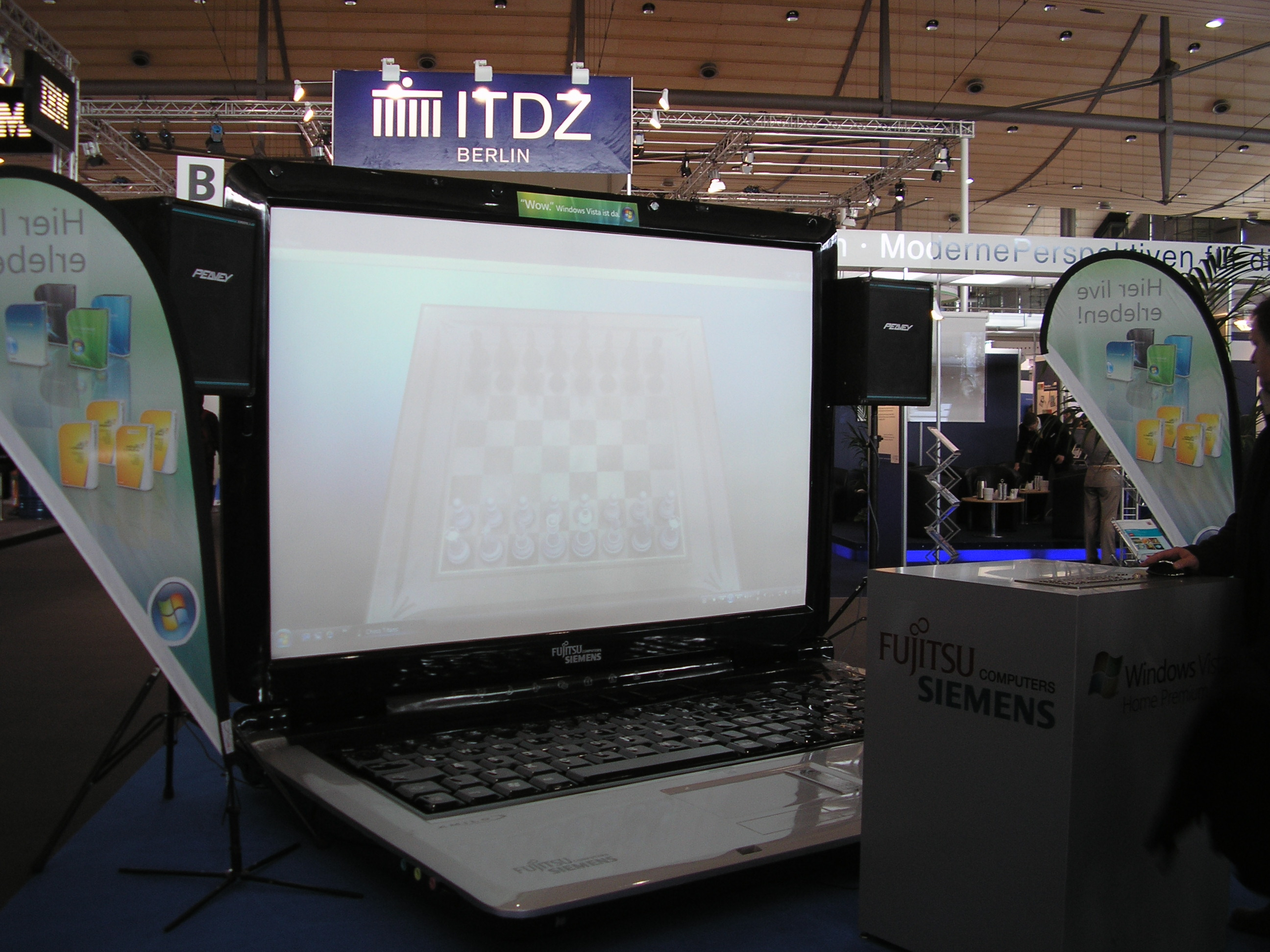 A superhuge Notebook from fujitsu-siemens. Showed at CeBIT 2008.